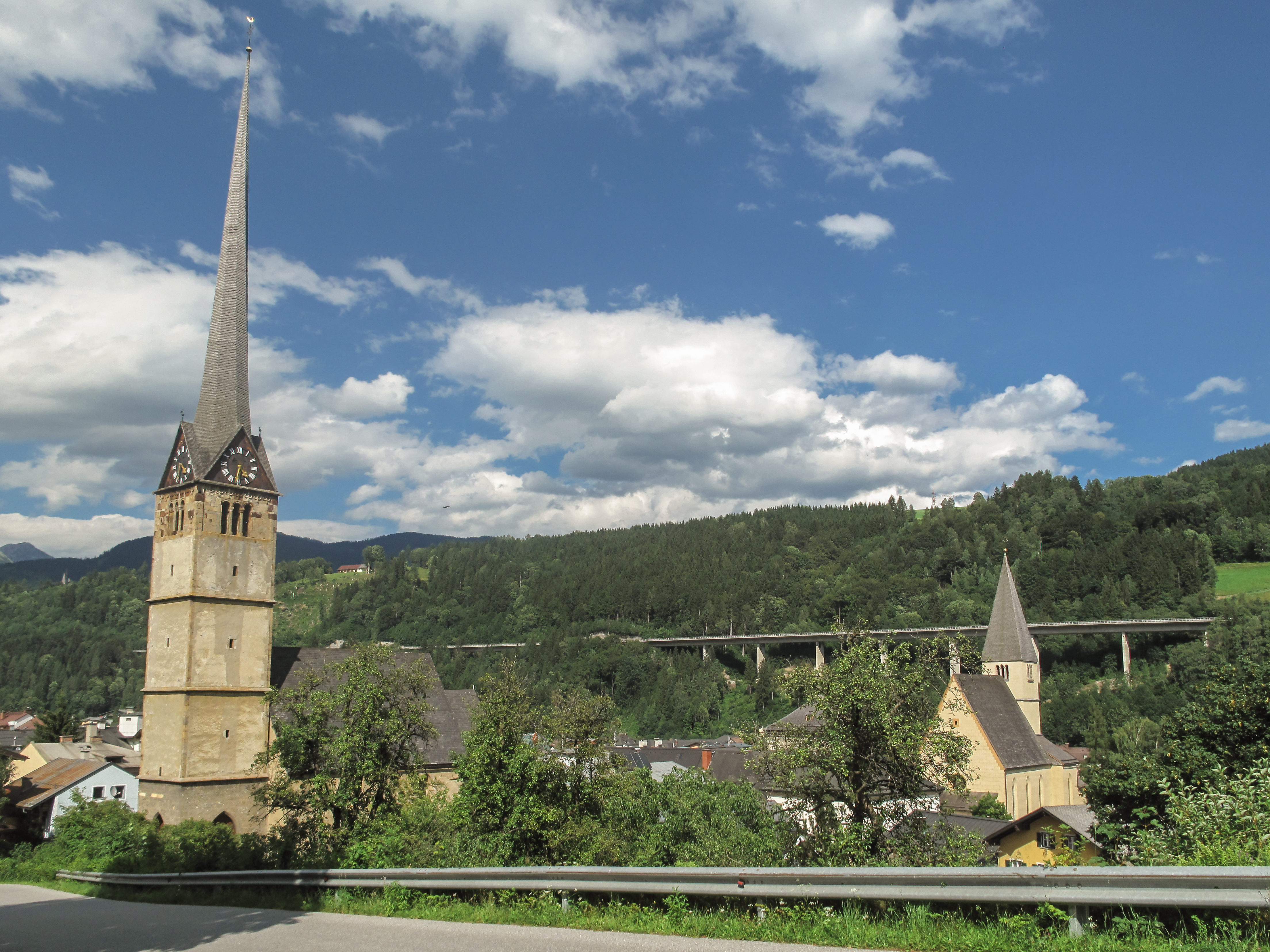 Bischofshofen, two churches